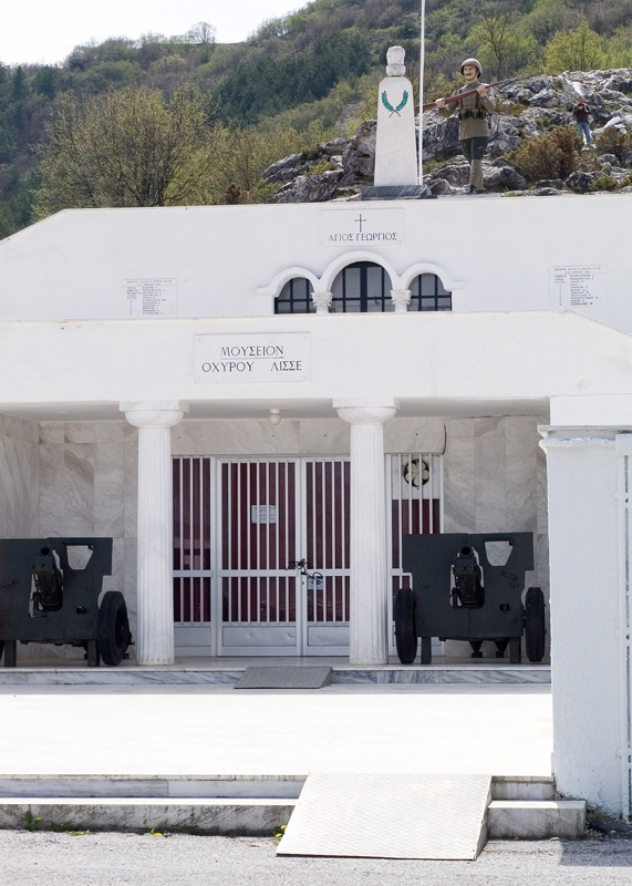 External view, image from the Fort Lisse, Drama, East Macedonia, Greece